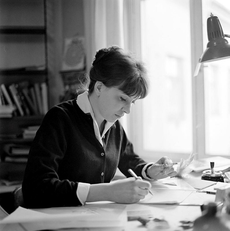 The swedish artist and designer Gunilla Hansson (born 1939) working at Bonnier, Sveavägen 56, in Stockholm 1963.